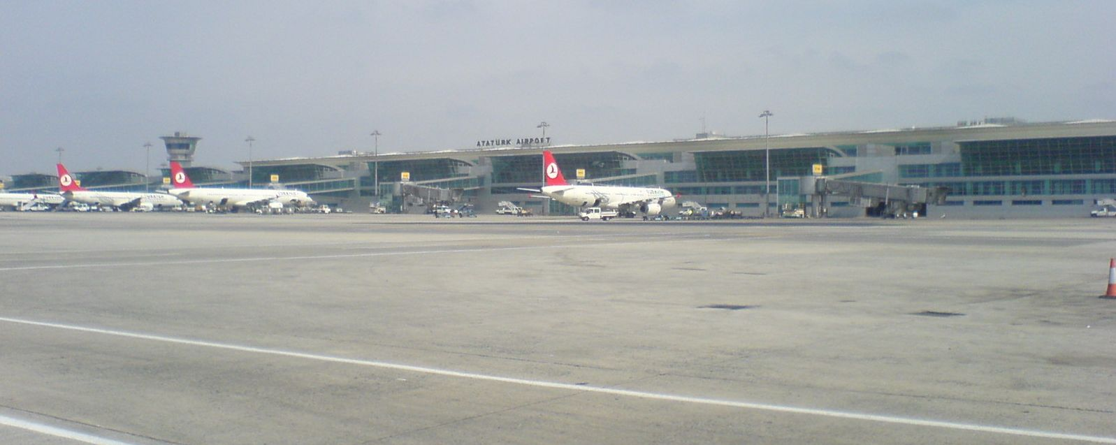 Istanbul Atatürk Airport International Terminal Building